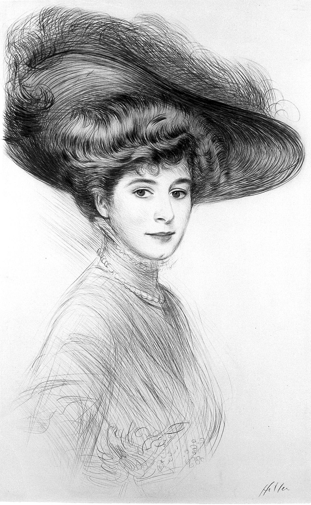 Gwendoline Maud Syrie Barnardo (later Wellcome, later Maugham). Drypoint by Paul-César Helleu. Iconographic Collections Keywords: Gwendoline Maud Syrie Wellcome; Paul Cesar Helleu